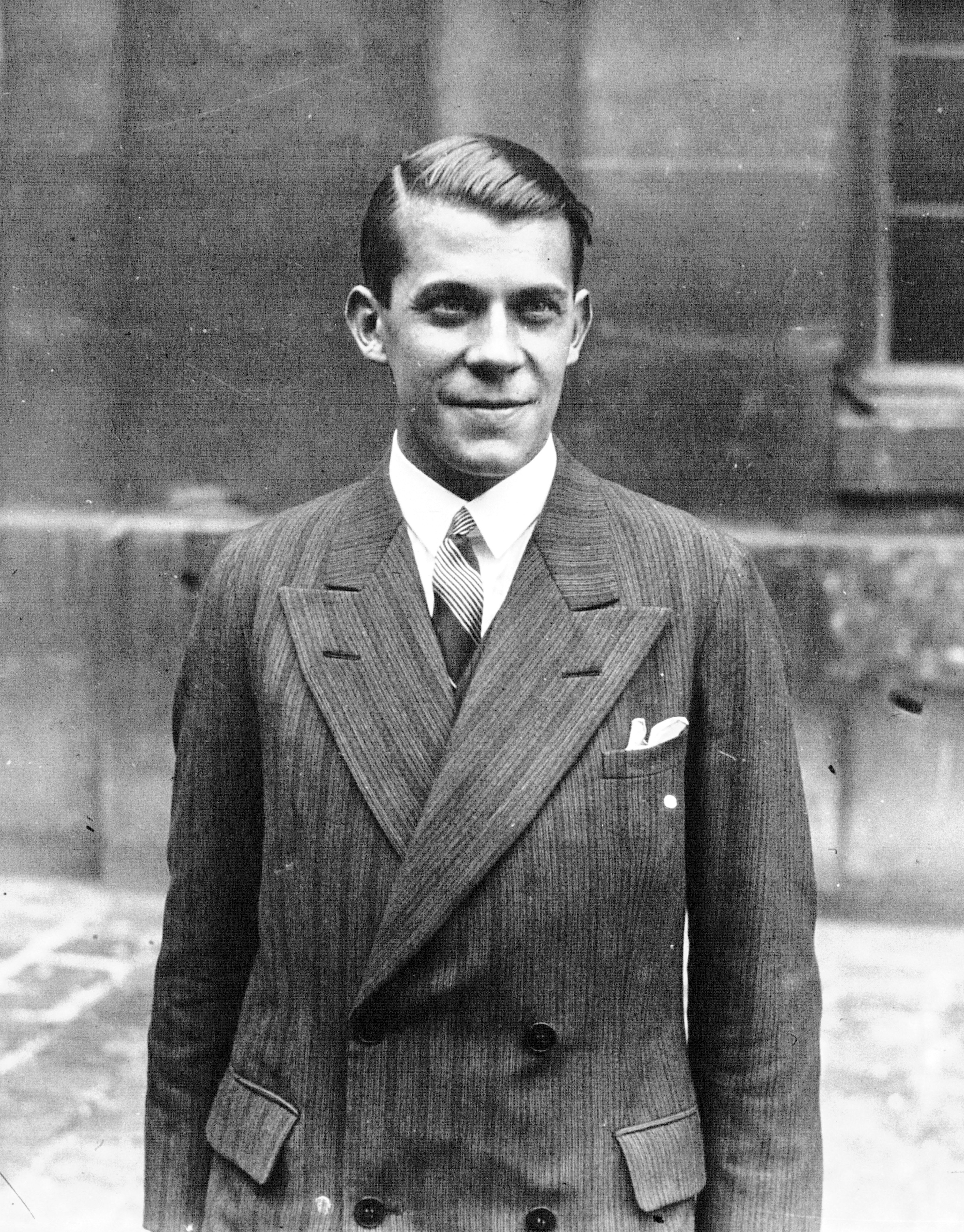 Depicted person: Tony Aubin